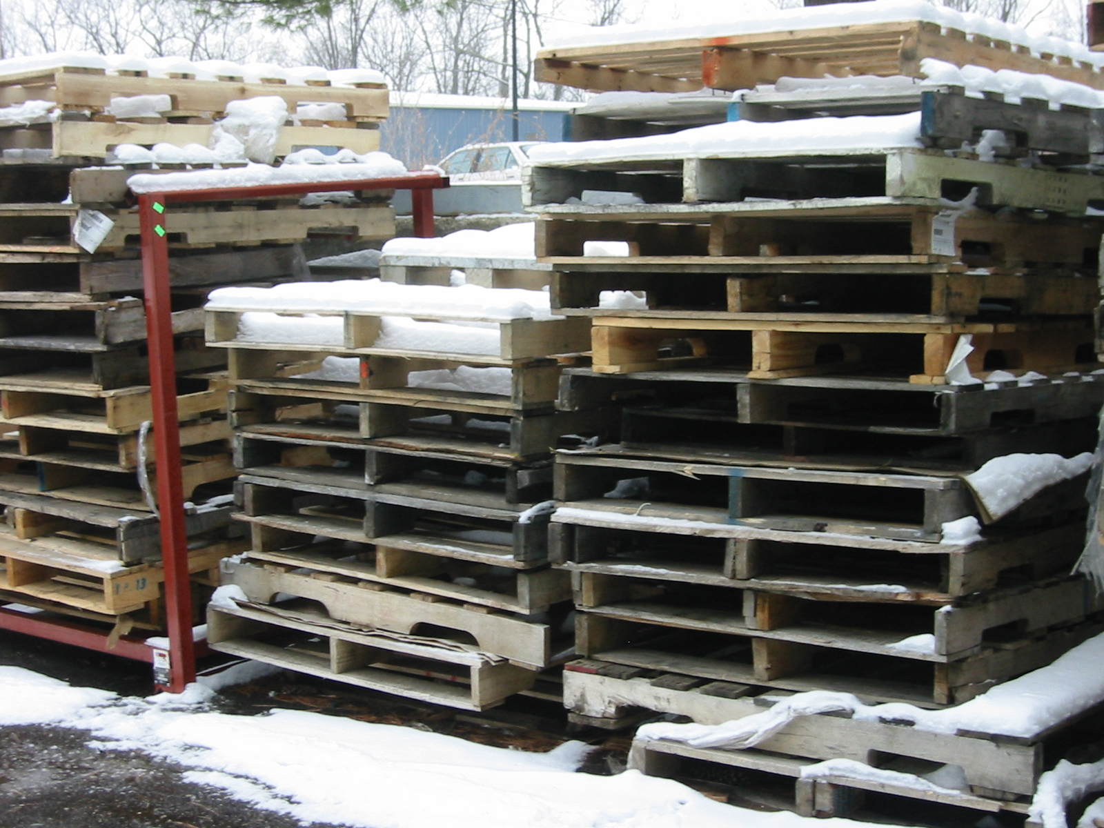 A tidy stack of pallets somewhere on University of Michigan Campus in the winter months.